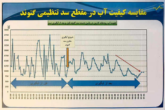 Gotvand Dam Hydrometry Report (Public record)